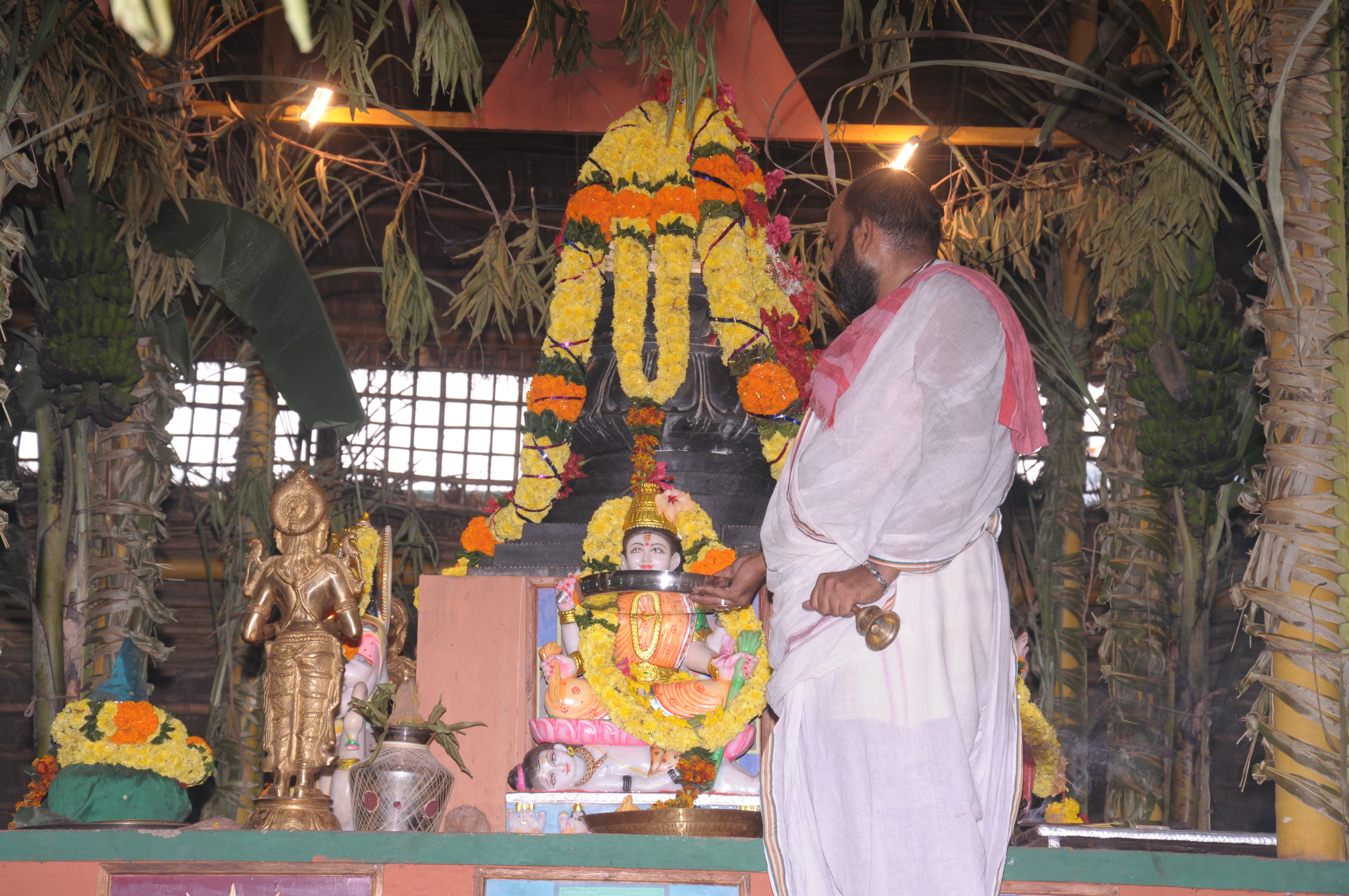 naivedyam to saraswaty vigraham at ahoratra yagasala